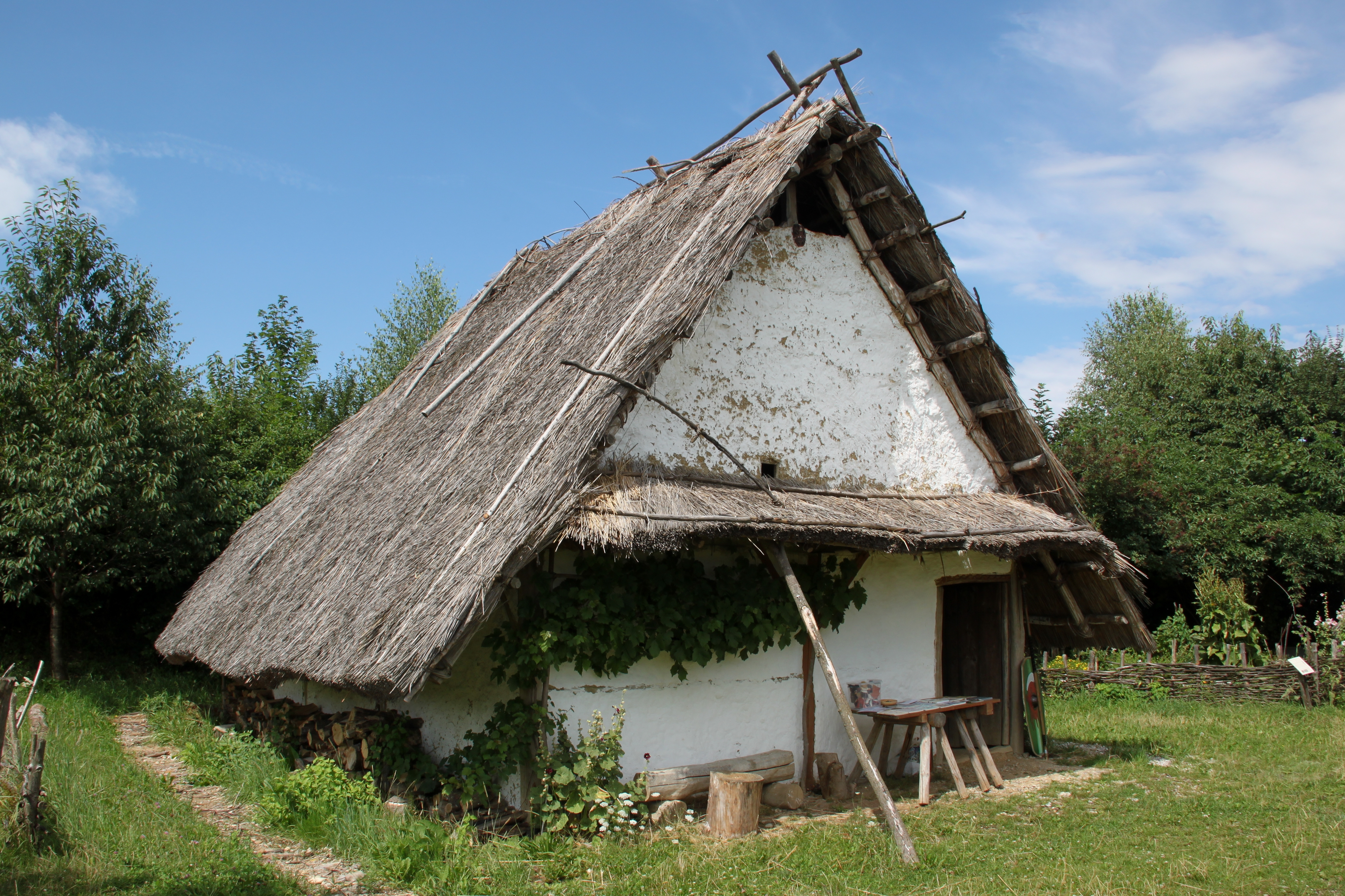 Bajuwarenhof Kirchheim: outbuilding (view from south-east).